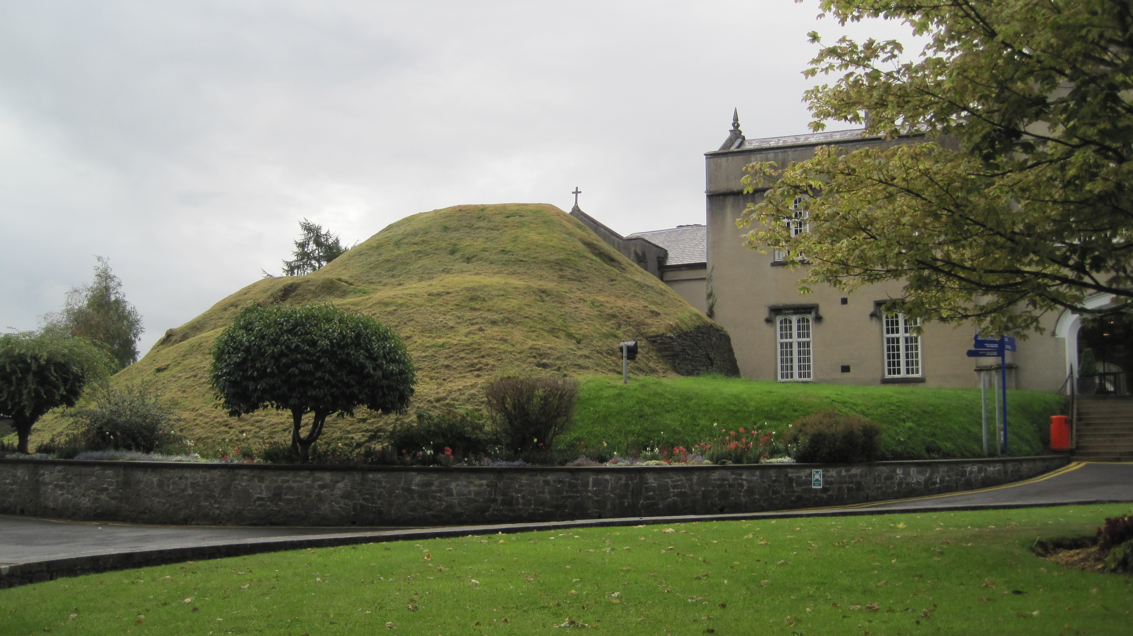 The University of Wales Trinity Saint David, Lampeter with Celtic burrial chamber on the left.